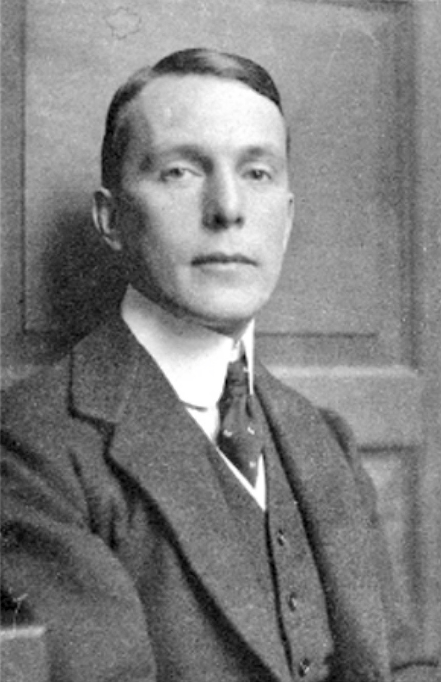 Walter Kaesbach (1879–1961), German art historian